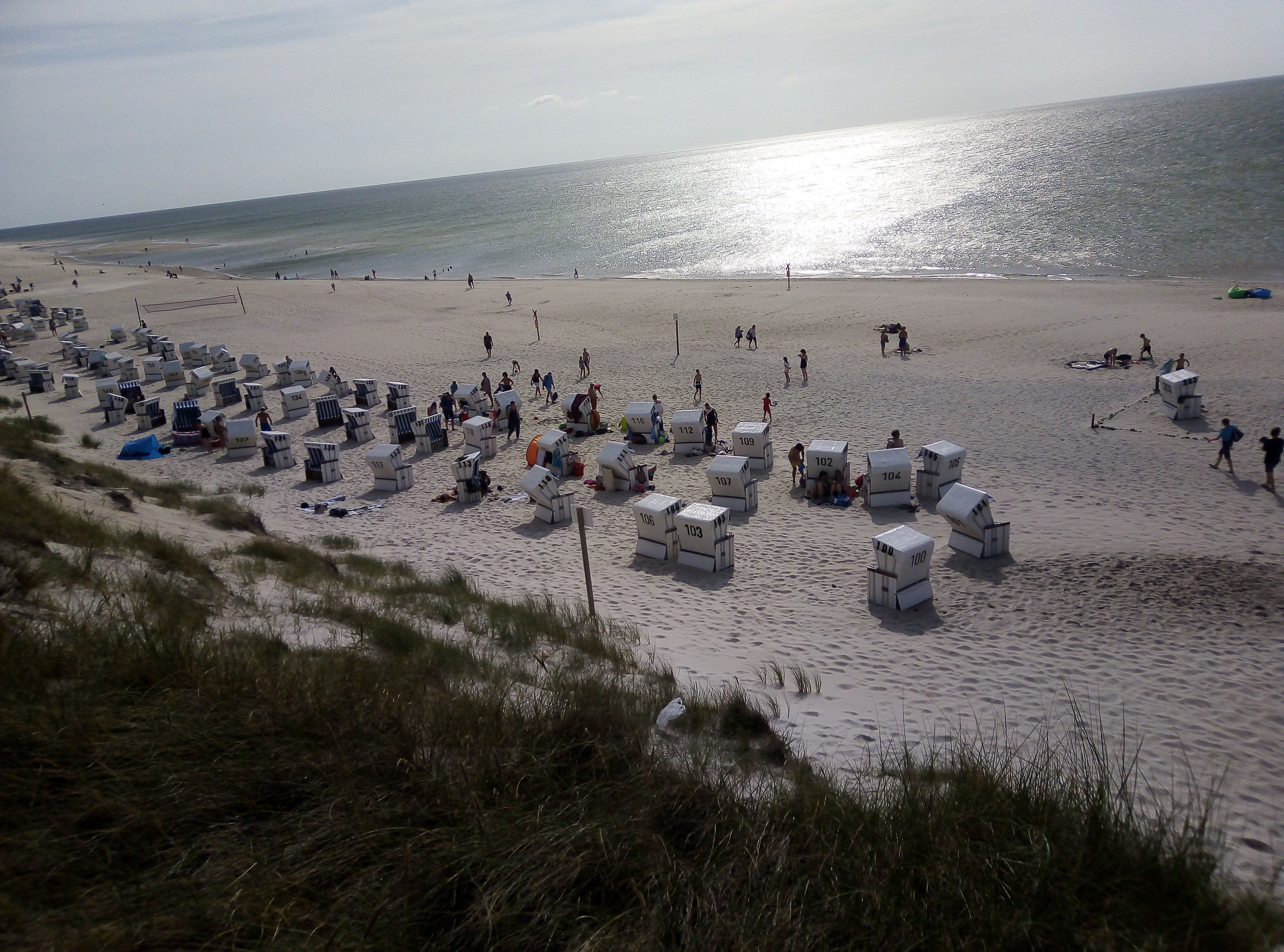 North Sea Beach, List auf Sylt